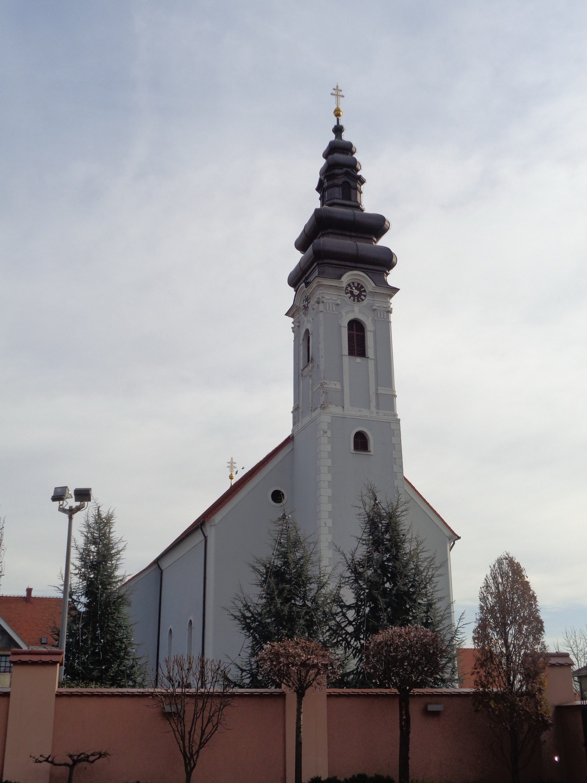 St. Jacob Church in Prelog, Medjimurje County, Croatia - west view